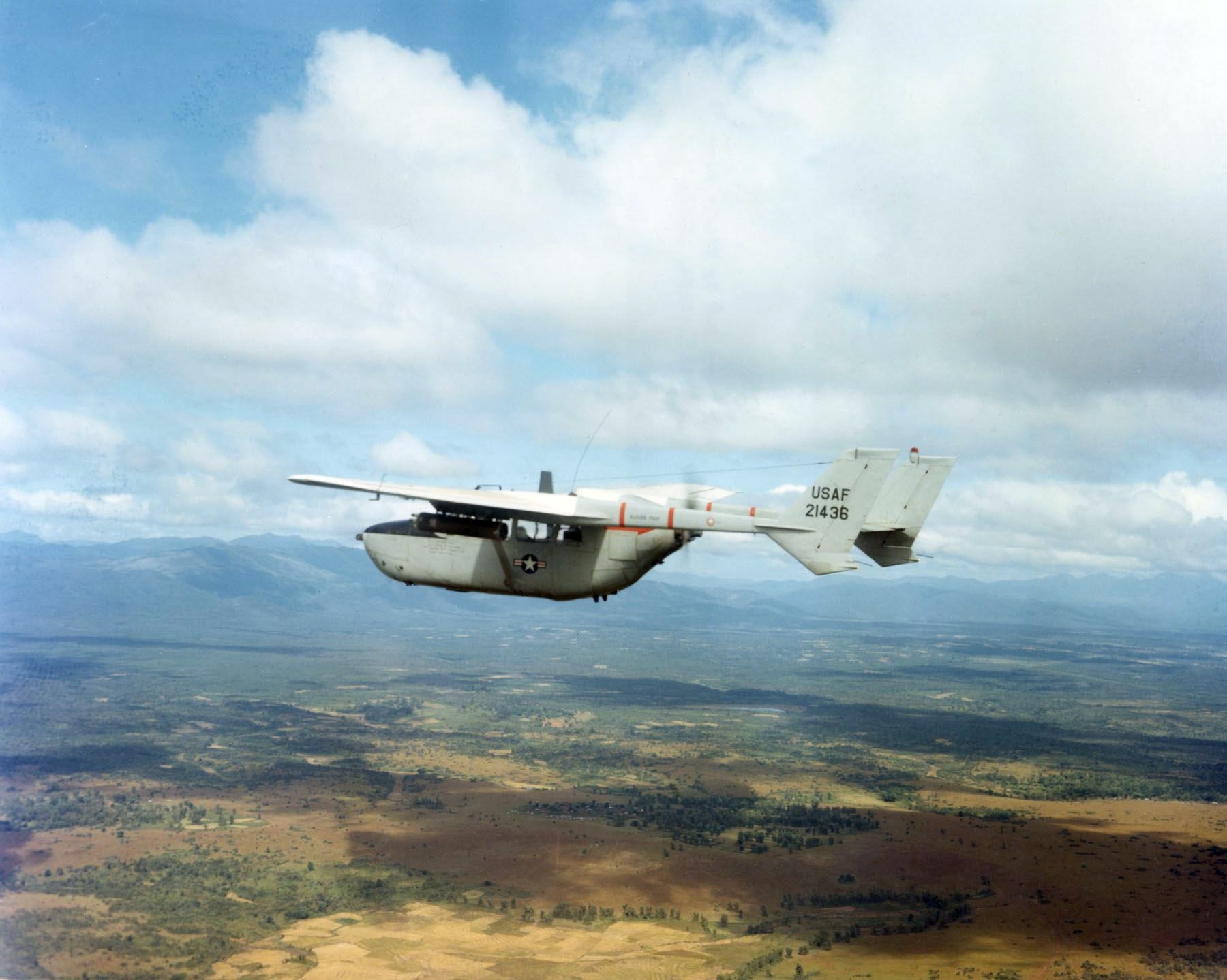 A U.S. Air Force Cessna O-2A-CE Super Skymaster (s/n 67-21436) in flight near Pleiku, Vietnam, in 1968.